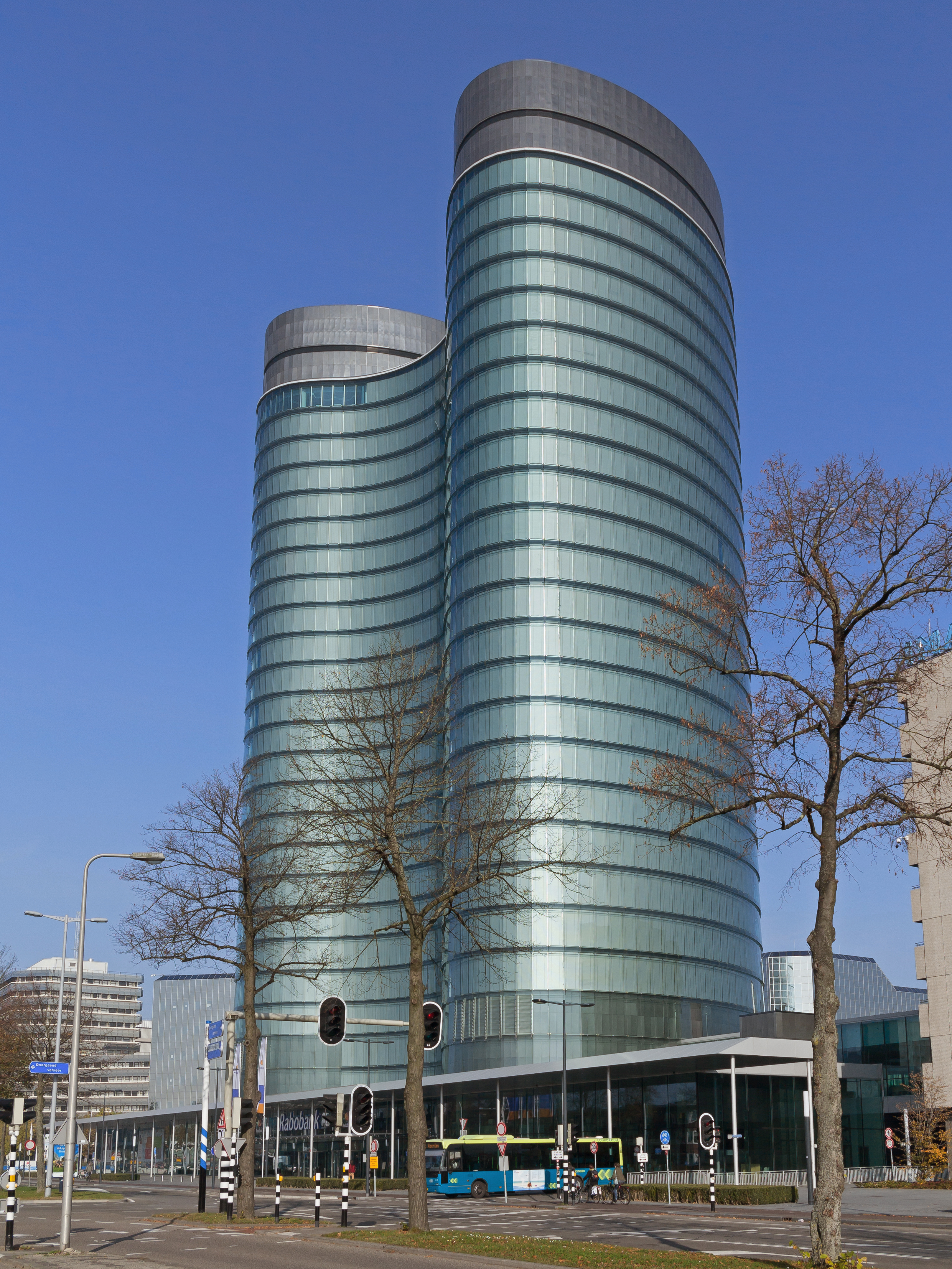 Utrecht, mhead office de Rabobank